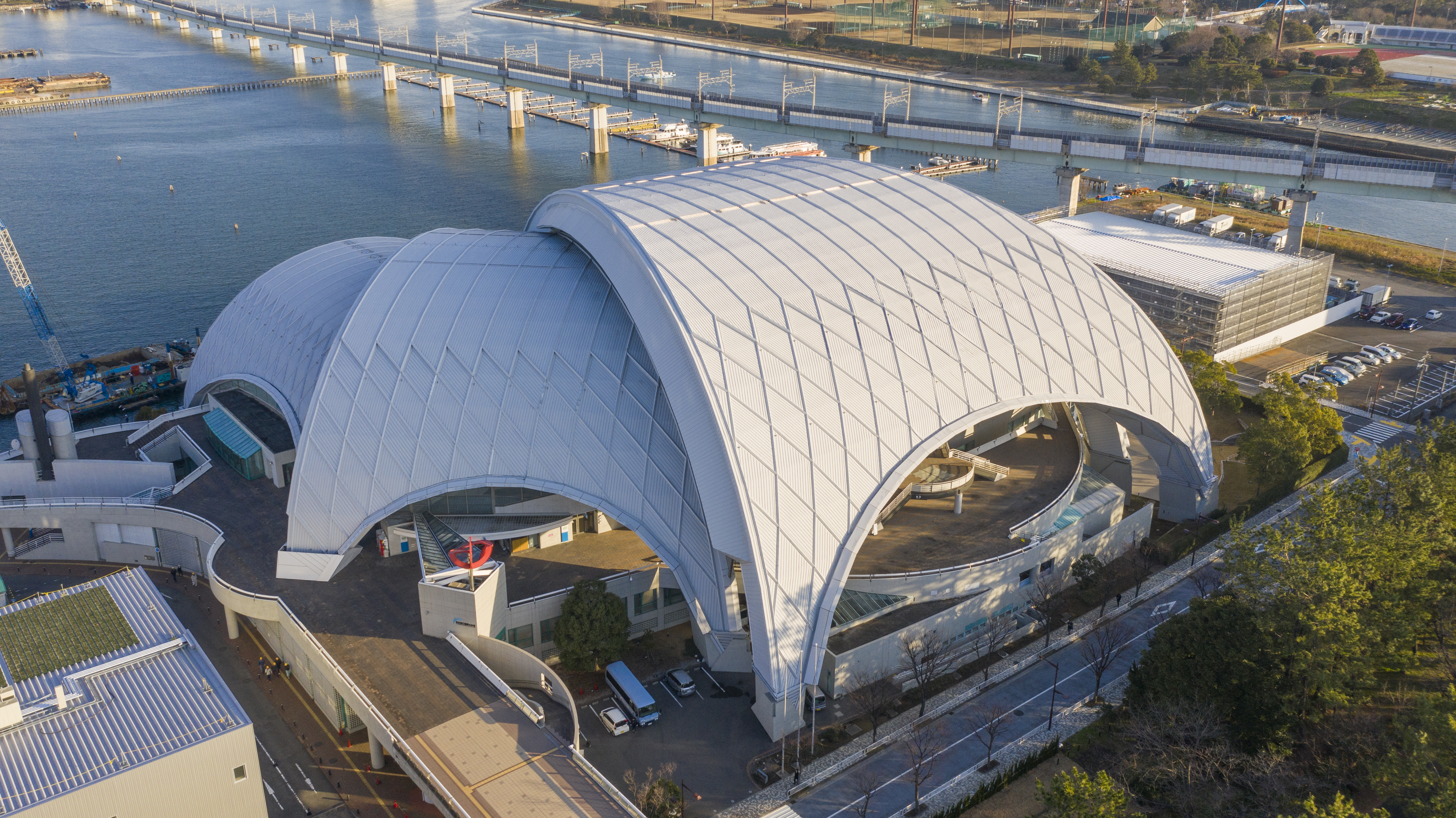 Aerial view of Tatsumi Water Polo Centre , Tokyo, Japan